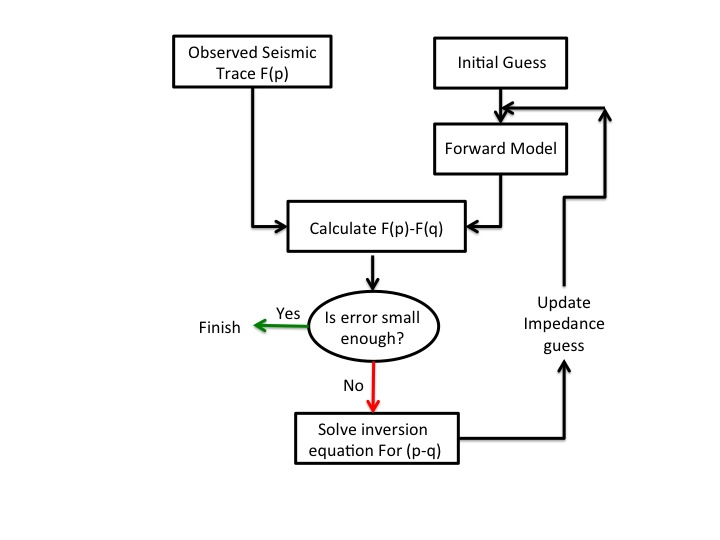 This is a flowchart for Linear Seismic Inversion inspired by a flowchart for seismic inversion of impedance data by Cooke, D. A.; Schneider W. A. (June 1983). "Generalized linear inversion of reflection seismic data". Geophysics 48 (6): 665–676.